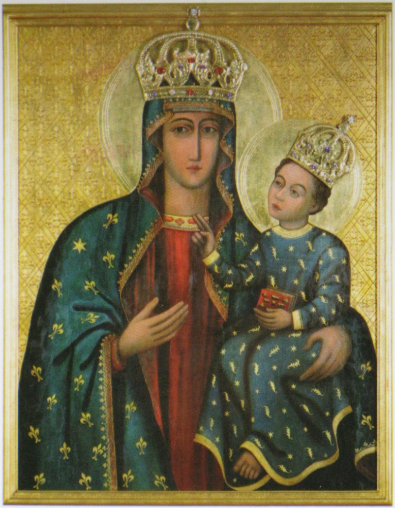 Painting of Matka Boska Łomżyńska in Cathedral Basilica